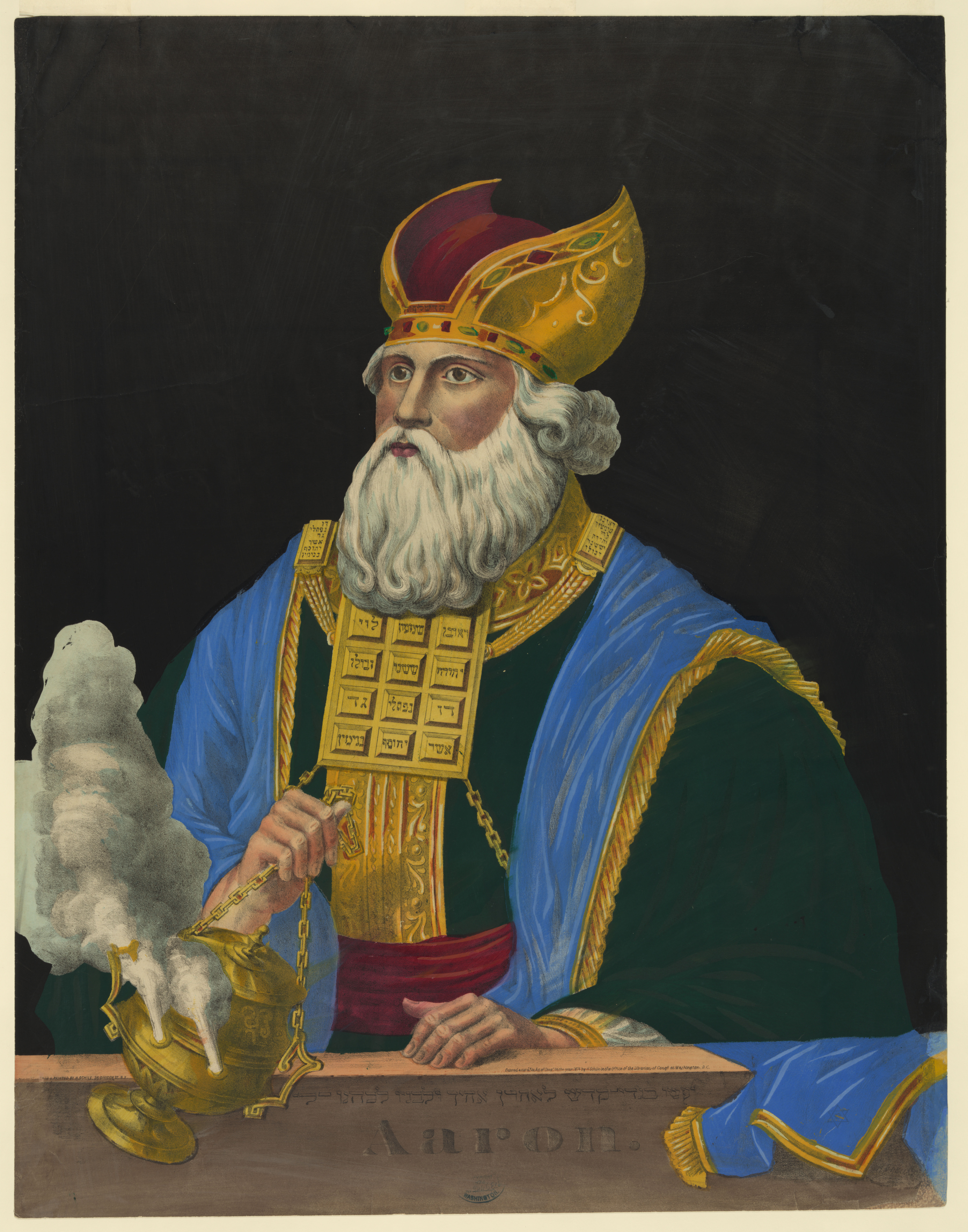 Print shows Aaron, half-length portrait, facing left, holding incense censer. Lithograph, hand-colored.